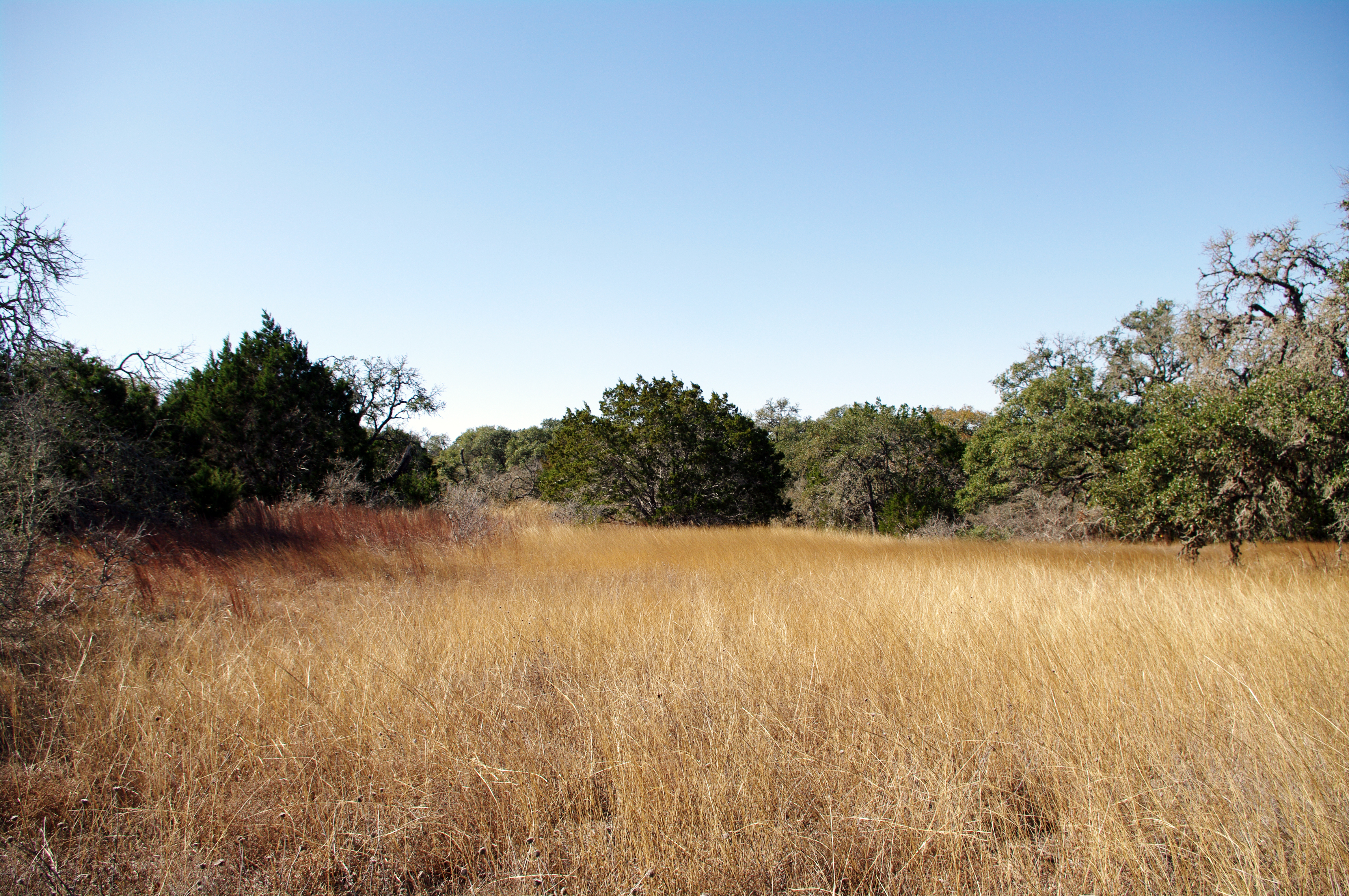 Hill Country State Natural Area, Texas